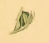 Stainton’s Natural History of the Tineina (1855–1873): Zelleria oleastrella an olive twig with leaves drawn together by larva